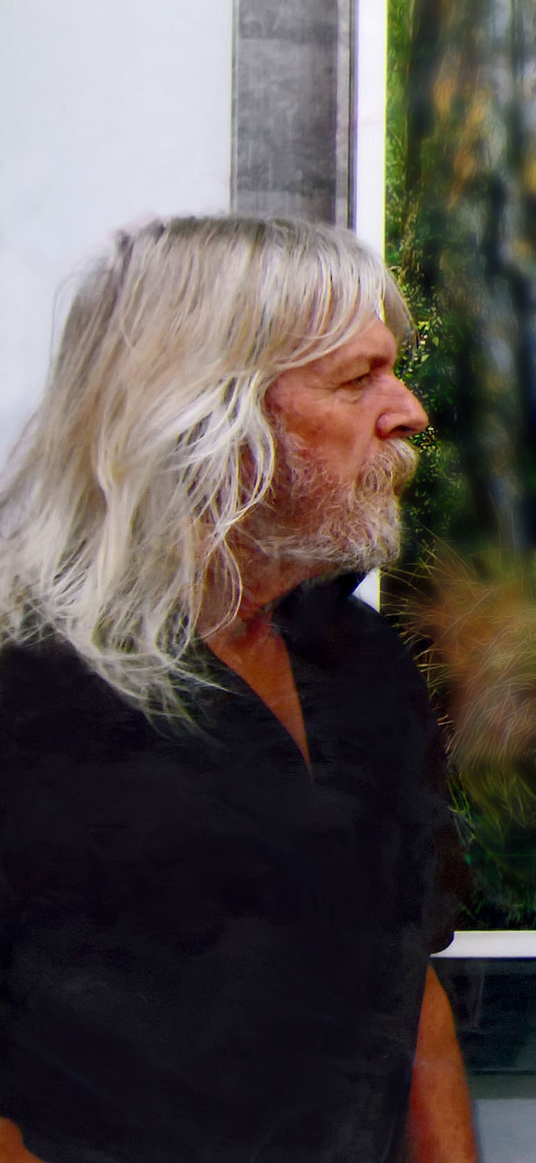 Alvin Pankhurst posing in his Parnell gallery with his painting Tuturu.